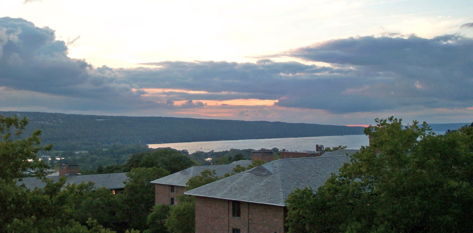 View from Libe Slope @ Cornell University in Ithaca, New York, towards Cayuga Lake. photo taken by Kevin W Hall, I was given his permission to upload because he is lazy. Photo appears to be taken from Lyon Hall and shows the University Halls before they were replaced in the 2000s. Category:Cornell University